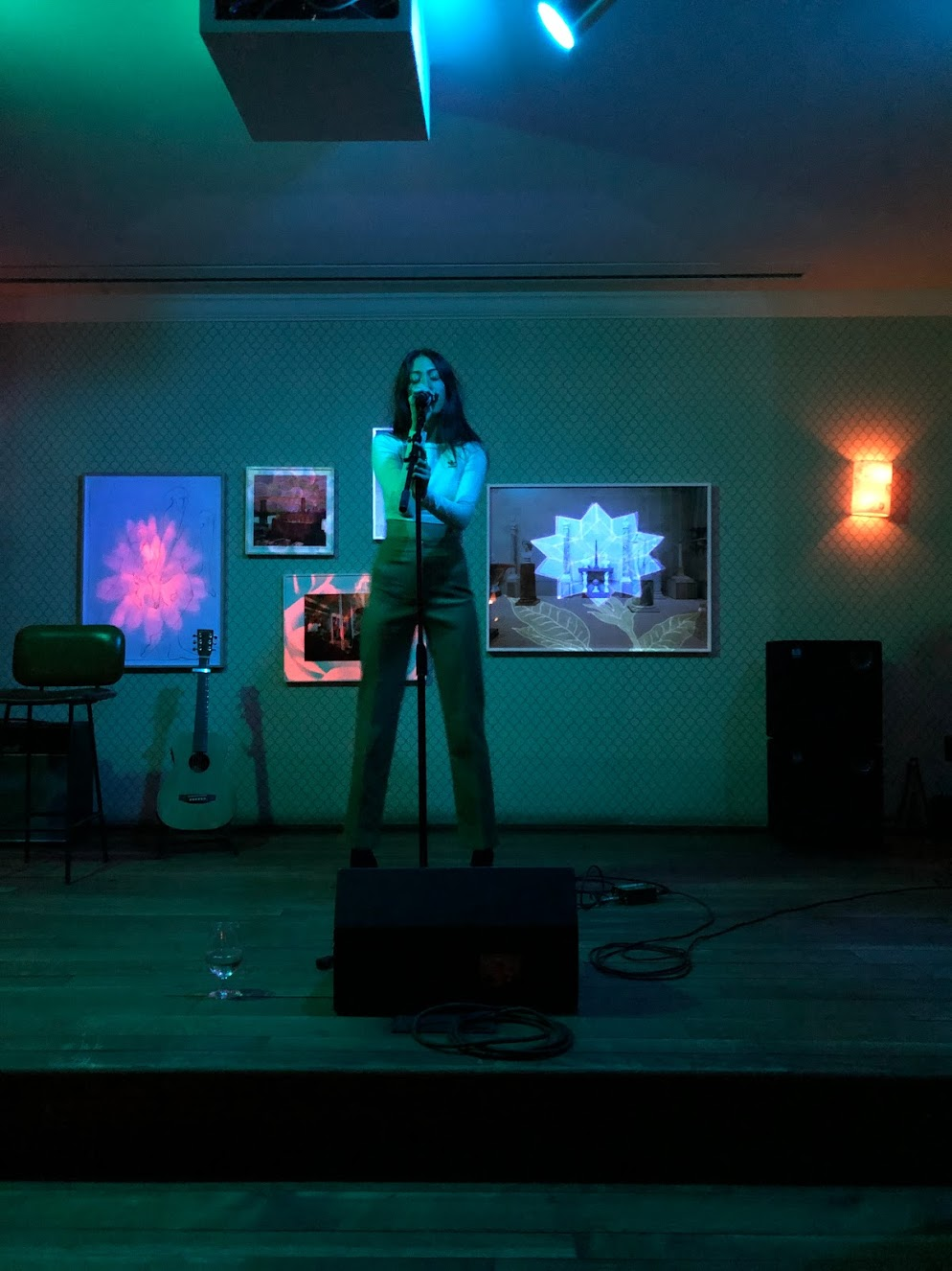 Danelle Sandoval performs live at Ludlow House in Manhattan, New York City. December 6, 2018